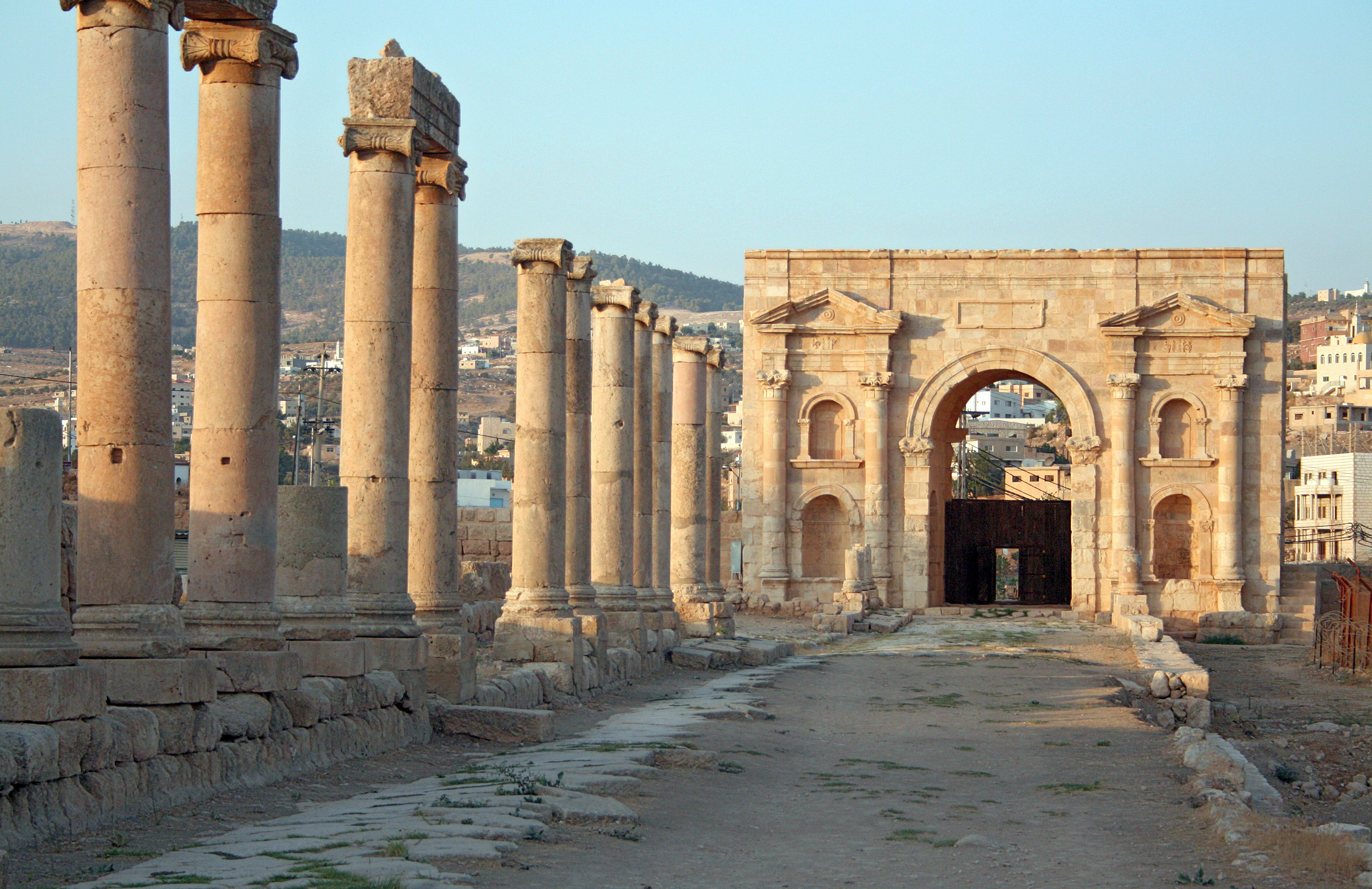 North Gate Jerash Jordan2